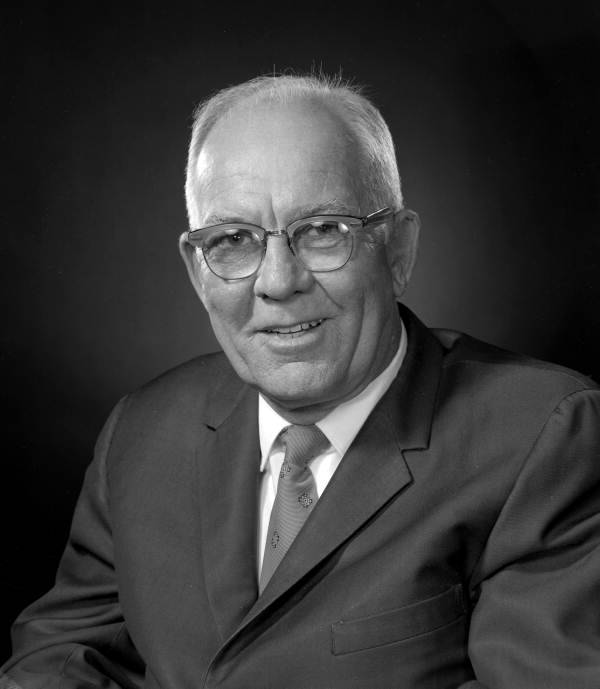 Portrait of state Public Service Commissioner William T. "Billy" Mayo - Tallahassee, Florida